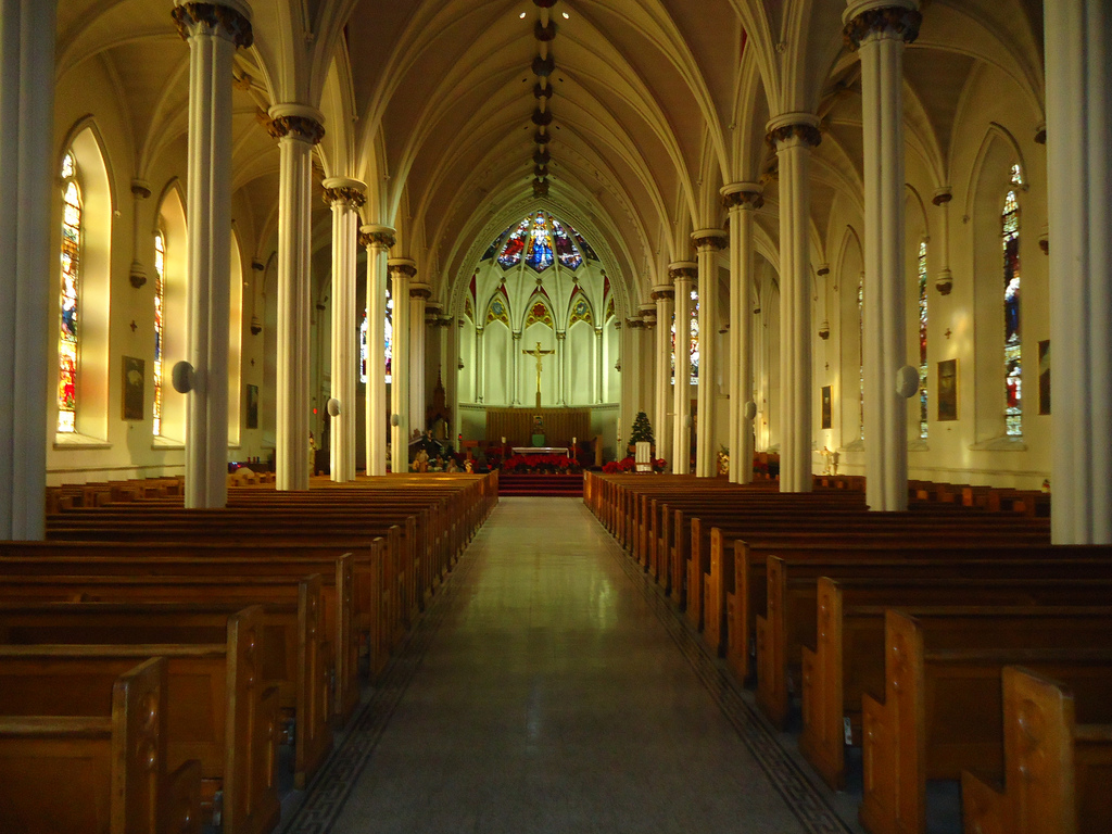 This is the nave of St. Mary's Basilica during Christmastide.